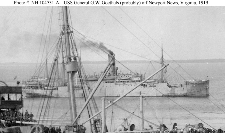 A ship identified as probably the United States Navy cargo ship and troop transport USS General G. W. Goethals (ID-1443) off Newport News, Virginia.